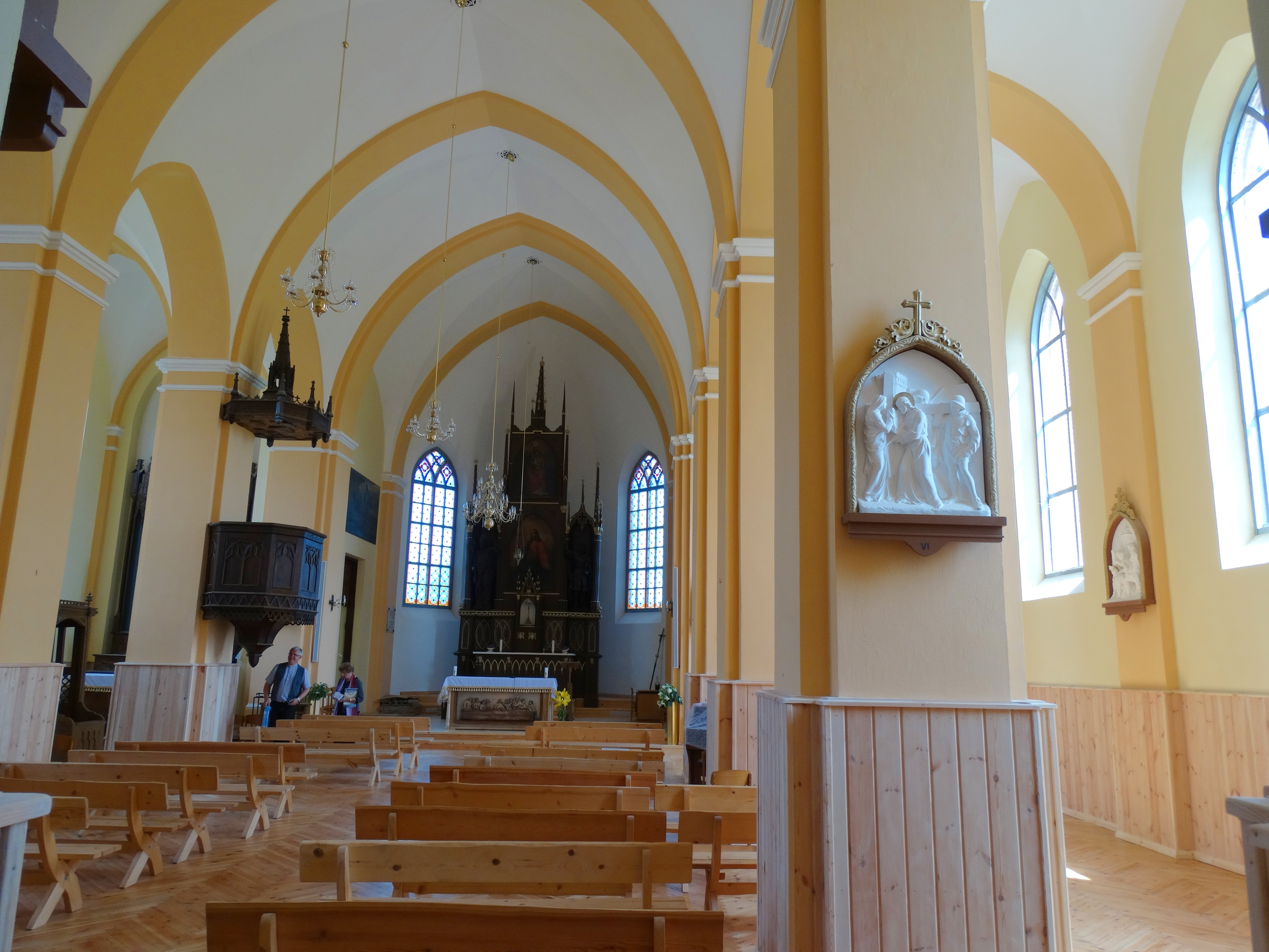 Church in Kazitiškis, interior, Ignalina district, Lithuania